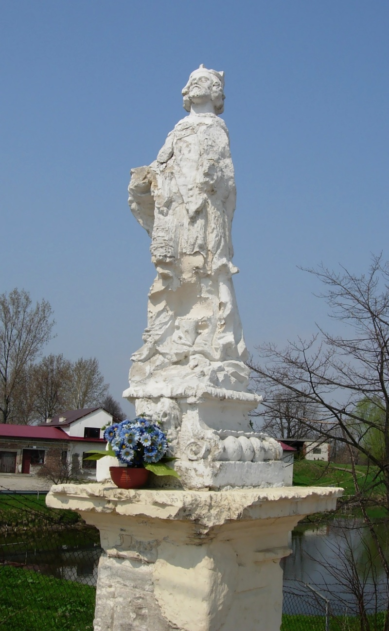 Statue of Saint John Nepomucene in Stopnica, Poland